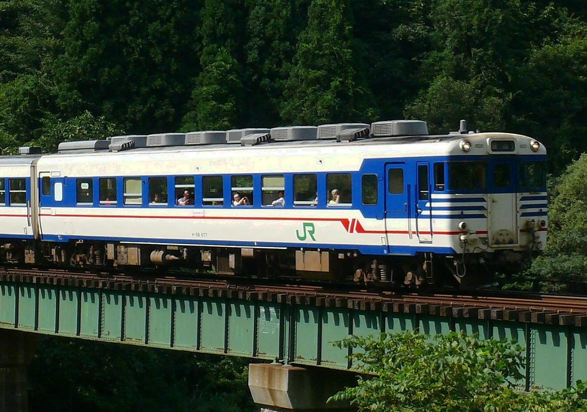 East Japan Railway Type kiha58-677 Diesel railcar (Japan).